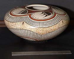 Seed Pot by Hopi artist Tyra Naha (Bearclaw design)